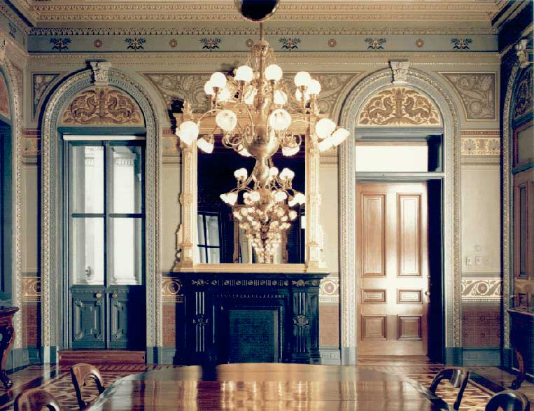 White house Vice President's Ceremonial Office